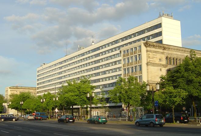 The Main Building of the TU Berlin, Strasse des 17. Juni 135